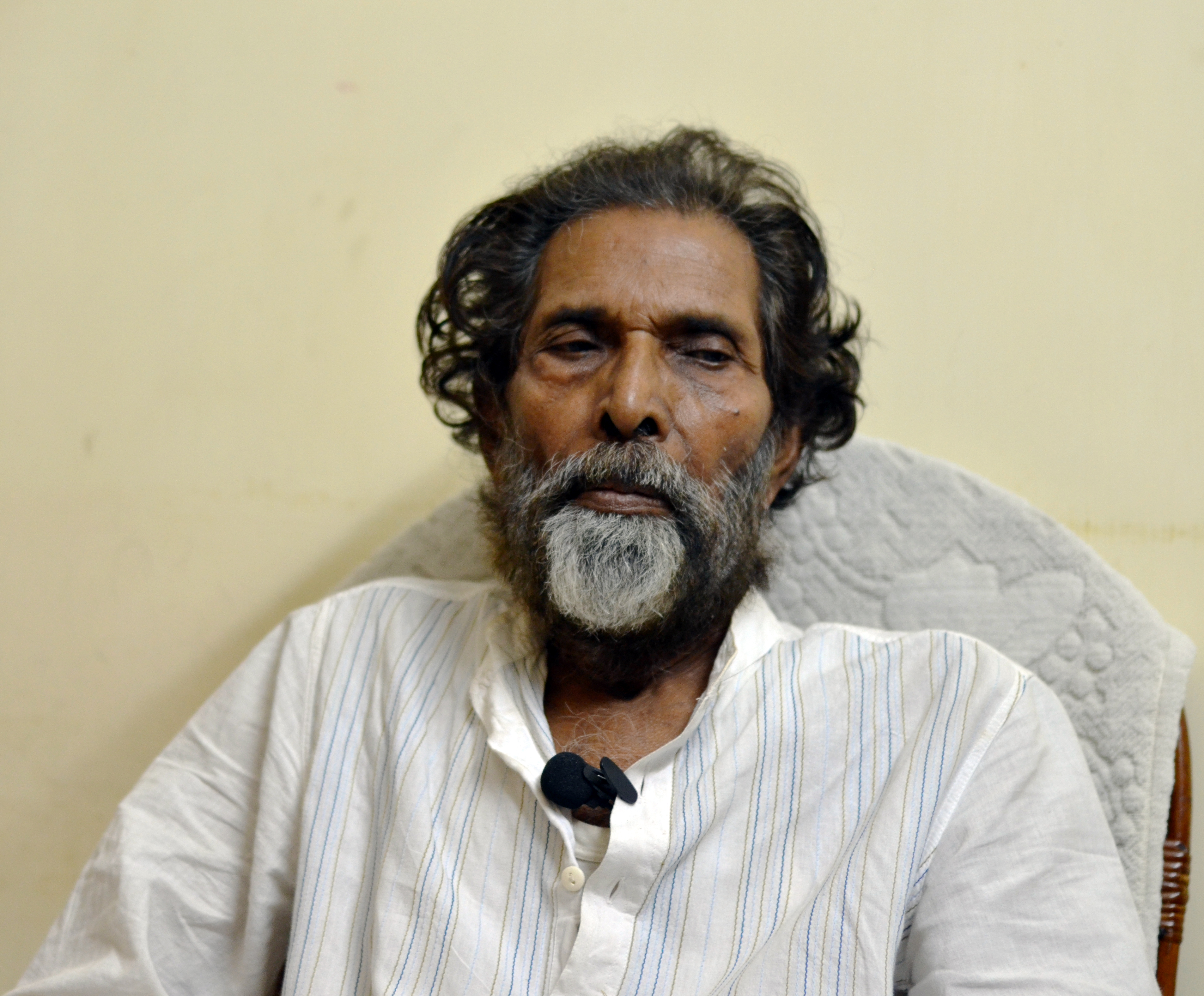 Asim Basu is an Indian theater artiste and director, art director, painter and play writer from Chandaneswar, Balasore district, Odisha, India.